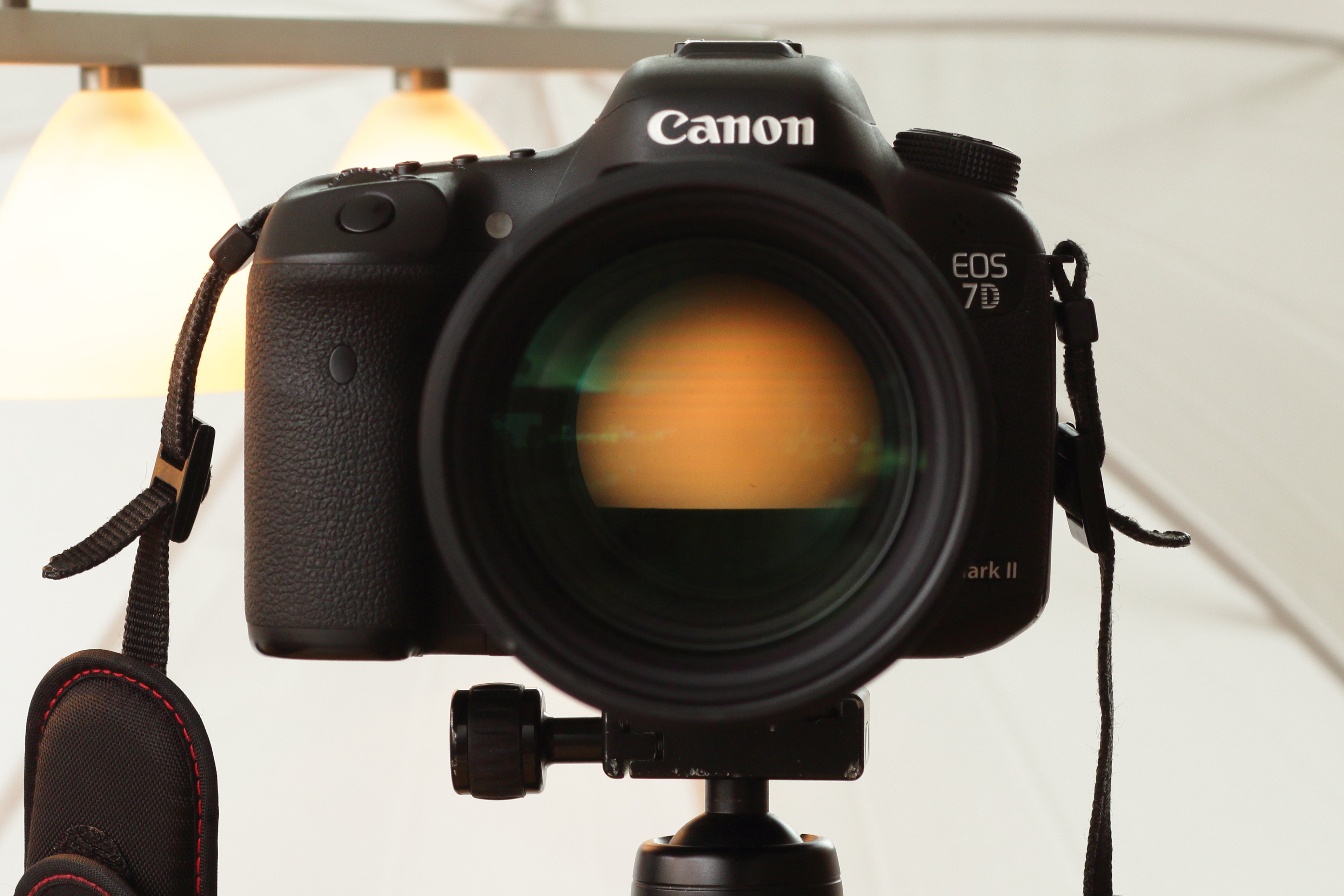 Sigma 85 f1.4 Art A16, mounted on a Canon EOS 7d Mk II